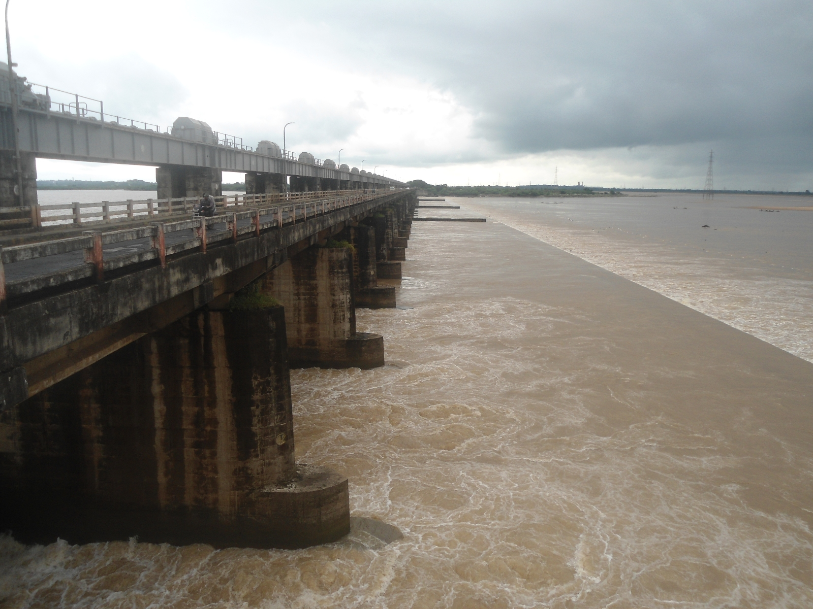 Dowleswaram Barrage near Rajahmundry on River Godavari